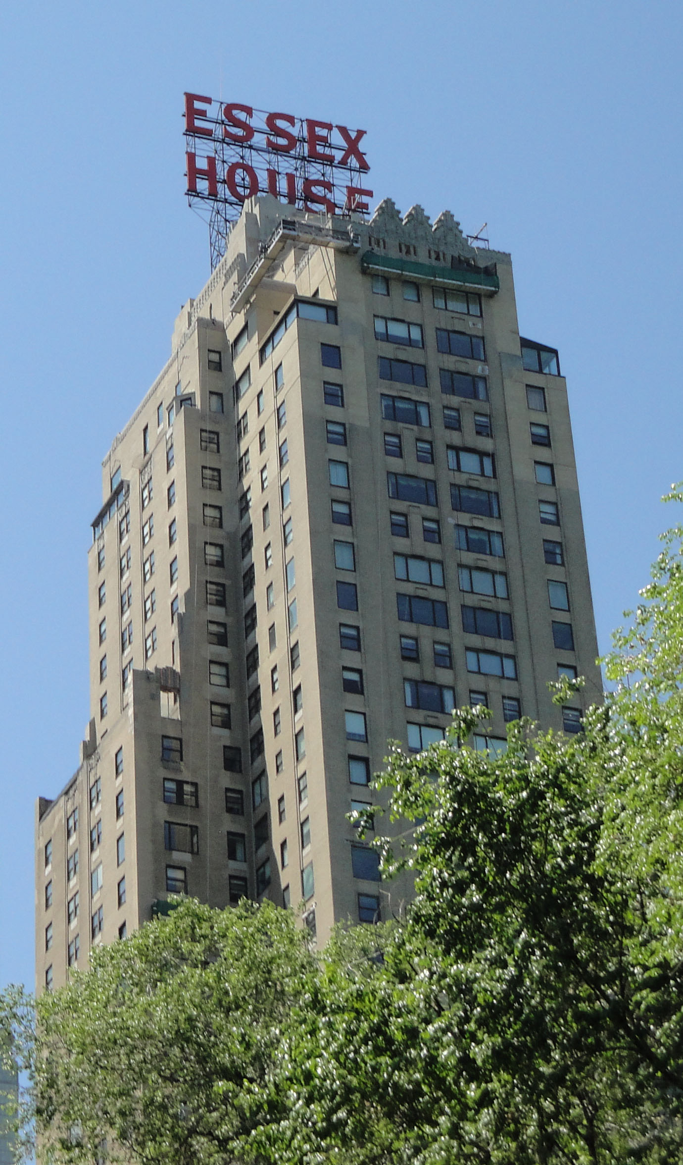 The Jumeirah Essex House, as viewed from Central Park in May 2010.